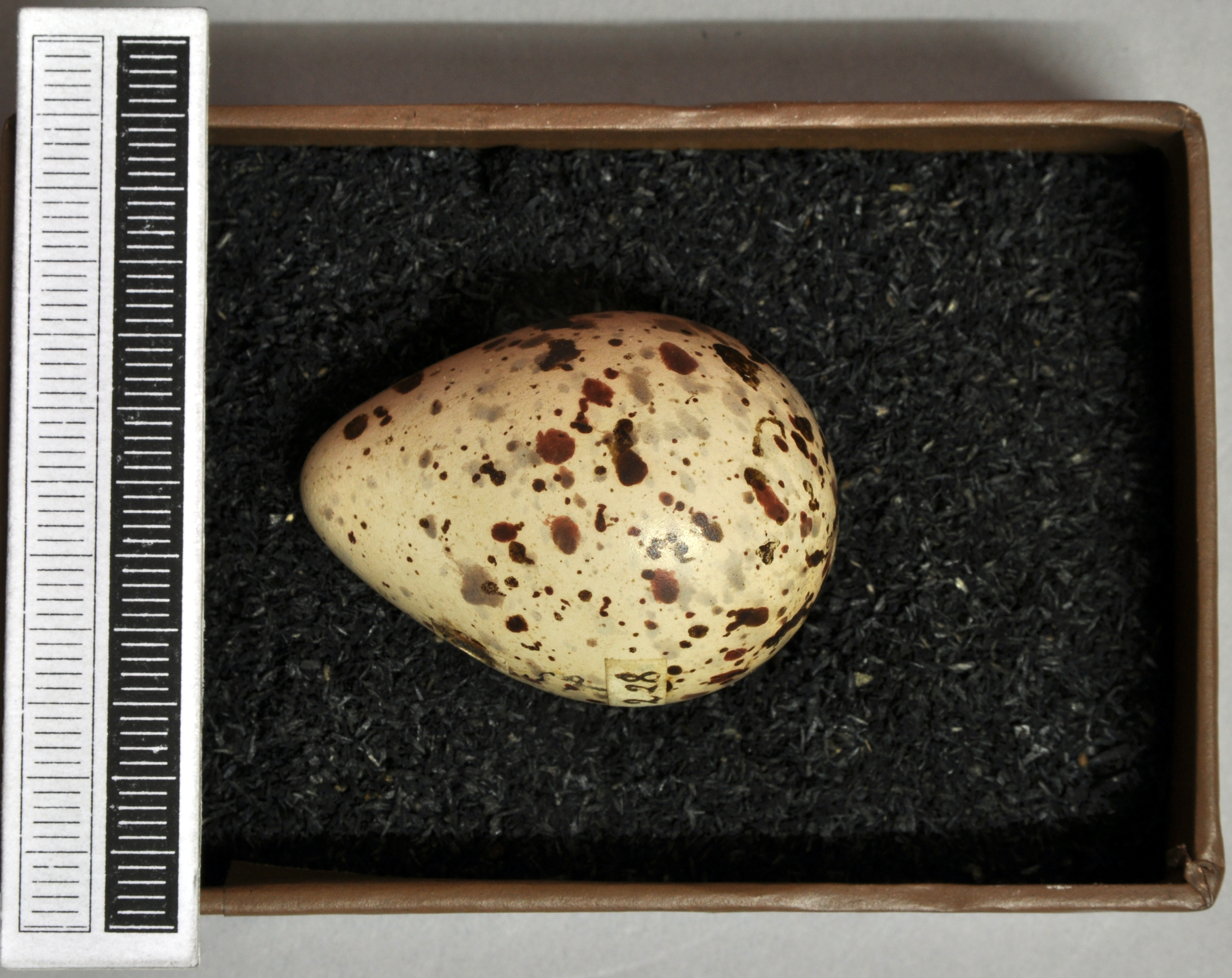 Wood sandpiper Tringa glareola , egg, Coll. Museum Wiesbaden